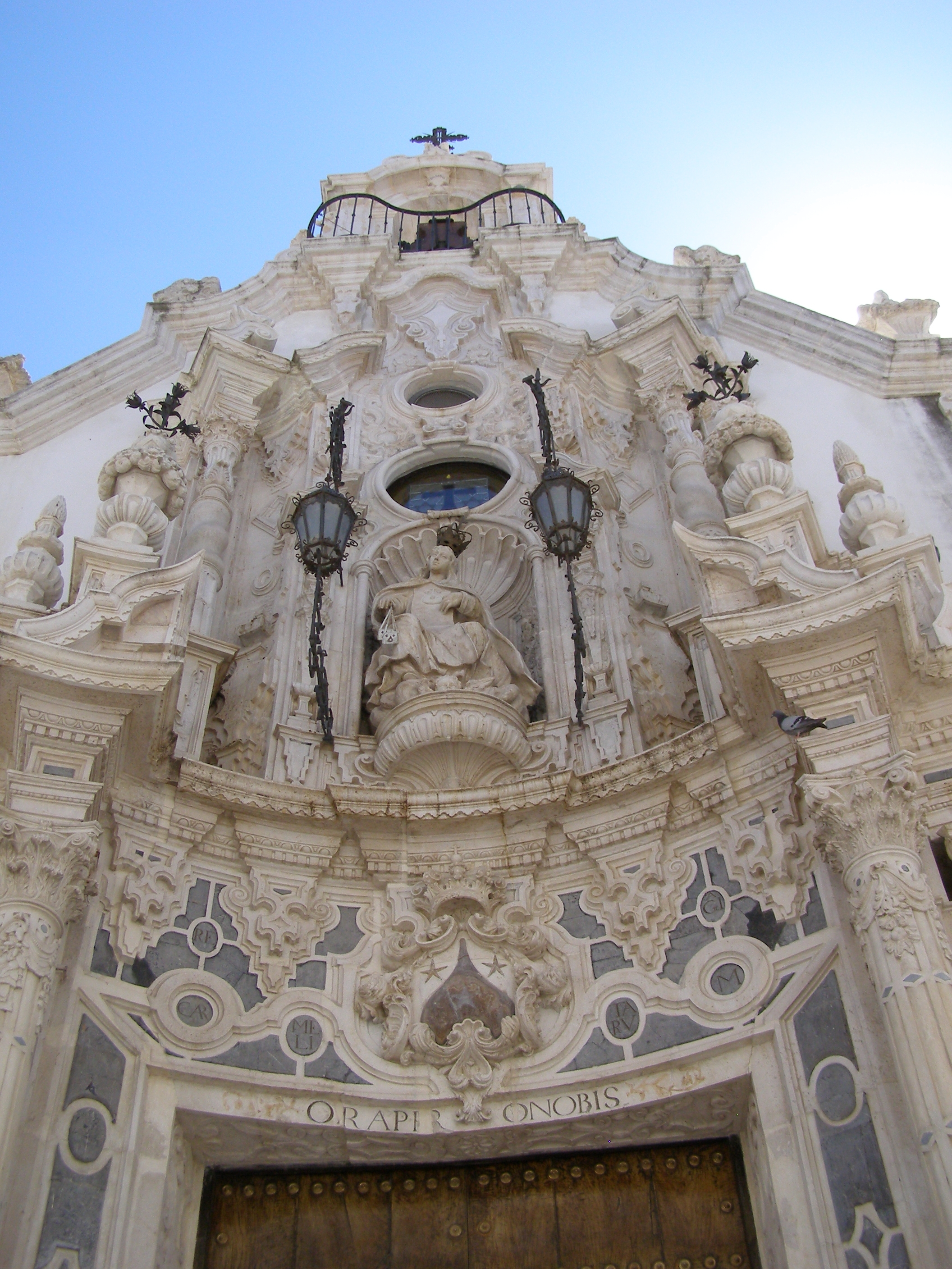 Estepa - Our Lady of Carmel church